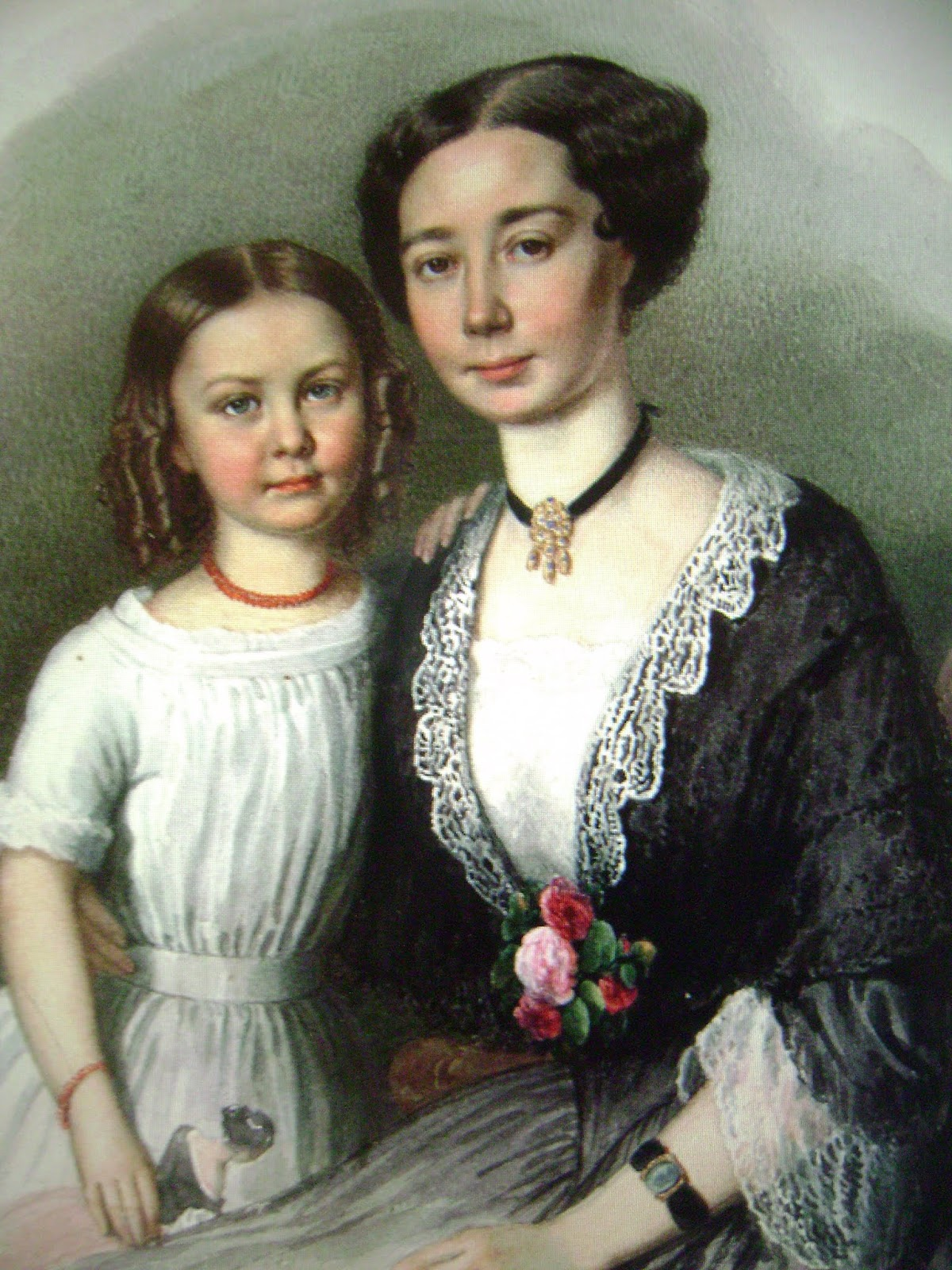 Görgei Artúr's wife, Adéle and their daughter Berta